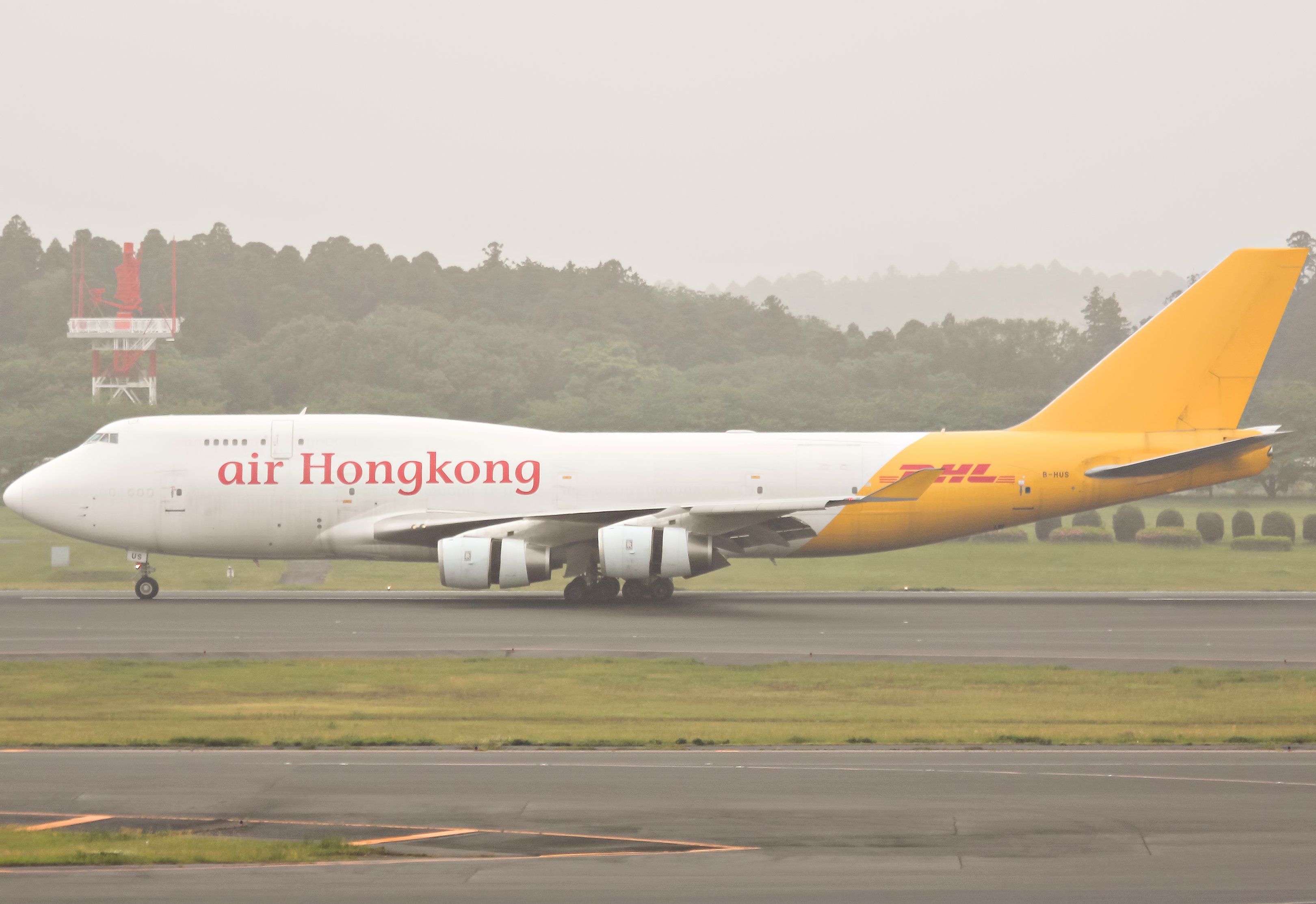 Boeing:747-444BCF SN:25152/861 Ex: South African Airways - ZS-SAW Cathay Pacific - B-HUS